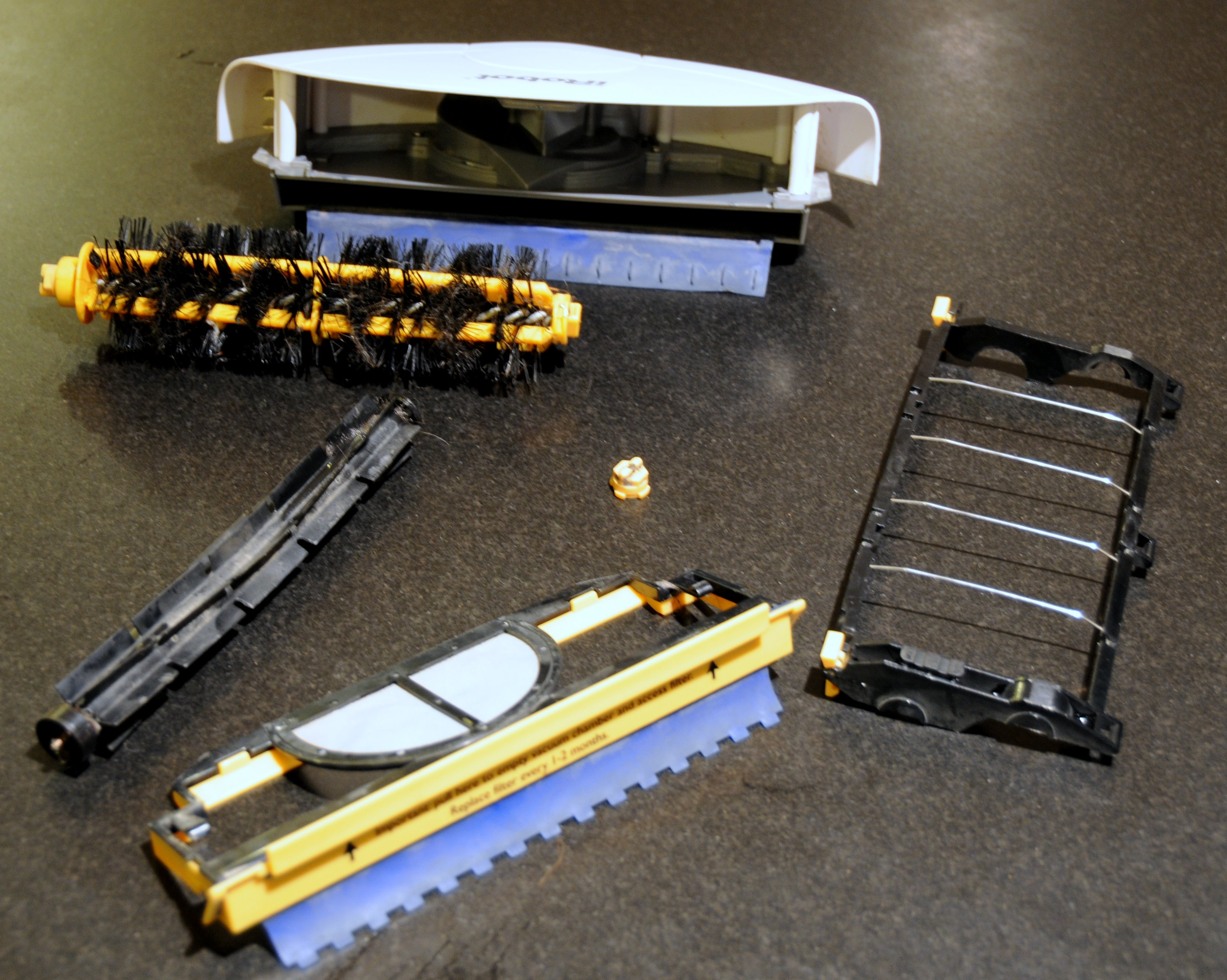 Just discovered that a roomba does a surprisingly good job of ingesting dog puke. It's clean now.